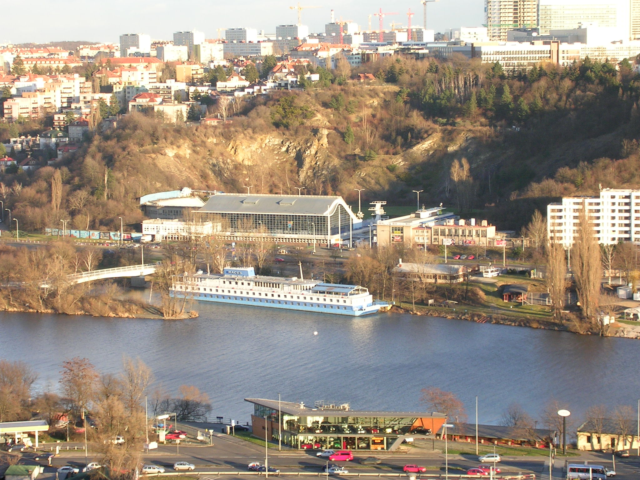 Prague, the Czech Republic. Podolí swimmstadion and Racek Botel.